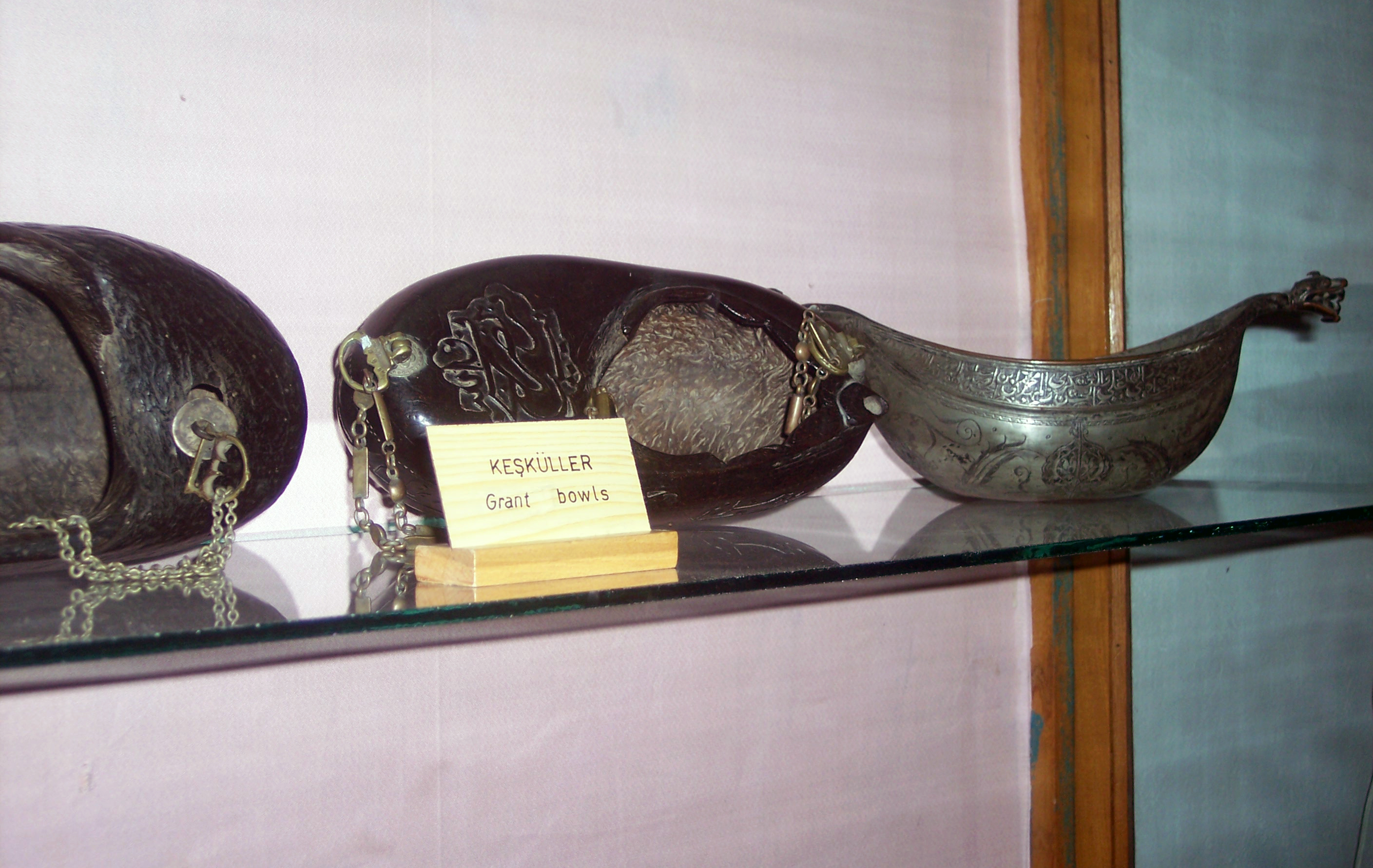 Keşküls from the dergâh of Hacı Bektaş-ı Veli (Hajji Bektash Wali, who is a well known Turkish Sufi. The dergâh is used as a museum today. Keşküls are grant bowls; Sufis of the dergâh begged from people and used these bowls during begging. Sufis believed that begging would test the dervish's character and help him to overcome his vanity and pride. Keşkül as a word means "bowl" in Farsi.